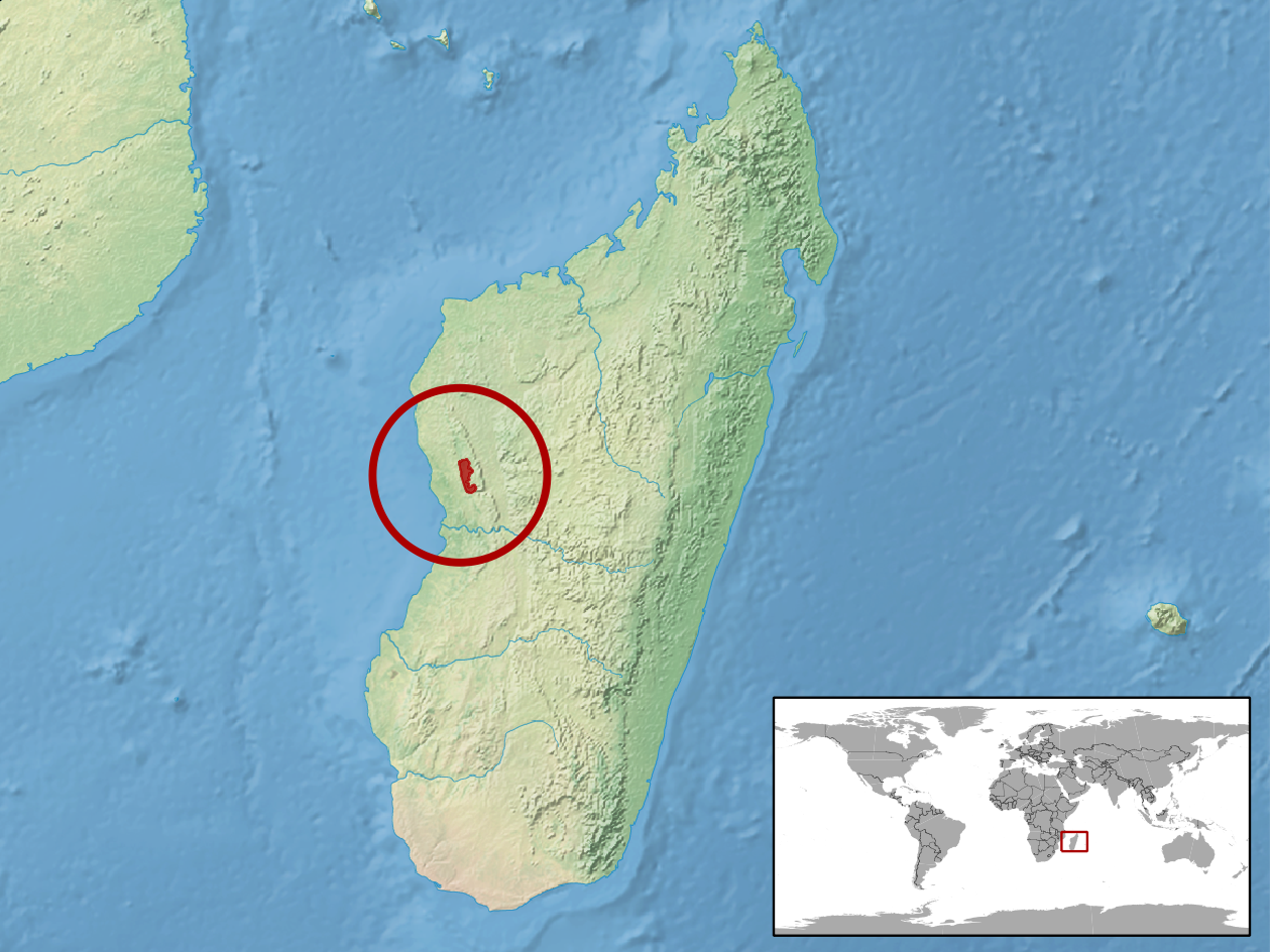 geographic distribution of Trachylepis volamenaloha